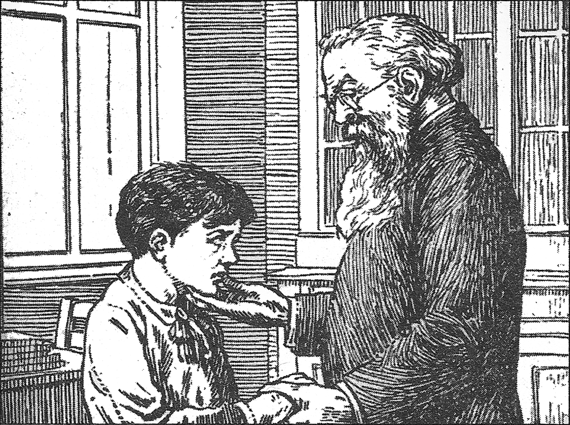 The 7th illustration from the Italian novel Heart by Edmondo de Amicis; it appears in the November chapter, on Friday, 18.